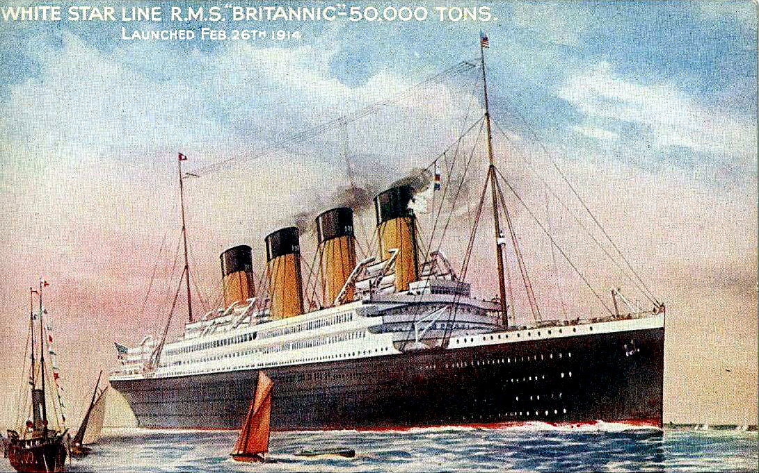 Postcard of the Britannic Source: The Maritime Digital Archive Encyclopedia there is stated to use the GNU Free Documentation License. It is also stated that this image is allowed for anyone to use it for any purpose including unrestricted redistribution, commercial use, and modification. This photo was taken prior to 1940, and it possibly already in the public domain.